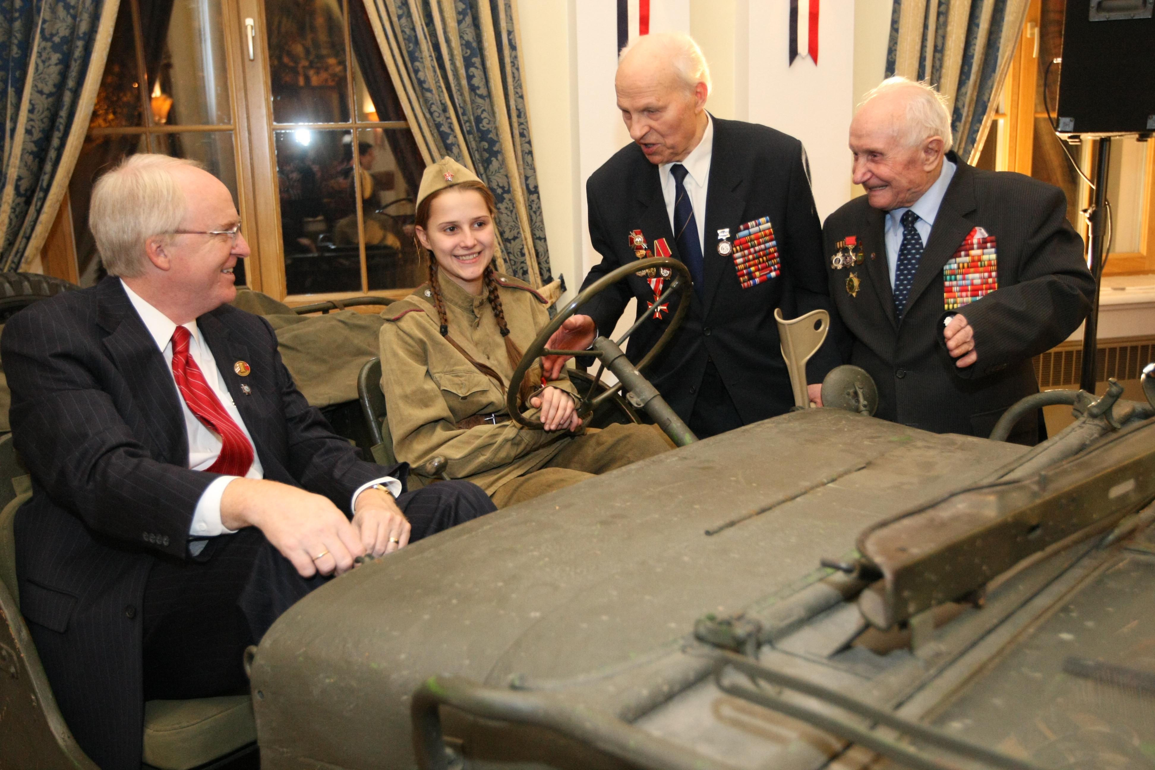 Reception for Russian Veterans at Spaso House, hosted by Ambassador John Beyrle. November 11, 2009.